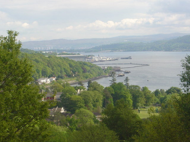 Faslane Naval Base. Photo taken from Whistlefield viewpoint.